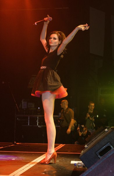 Sophie Ellis-Bextor performing at G-A-Y